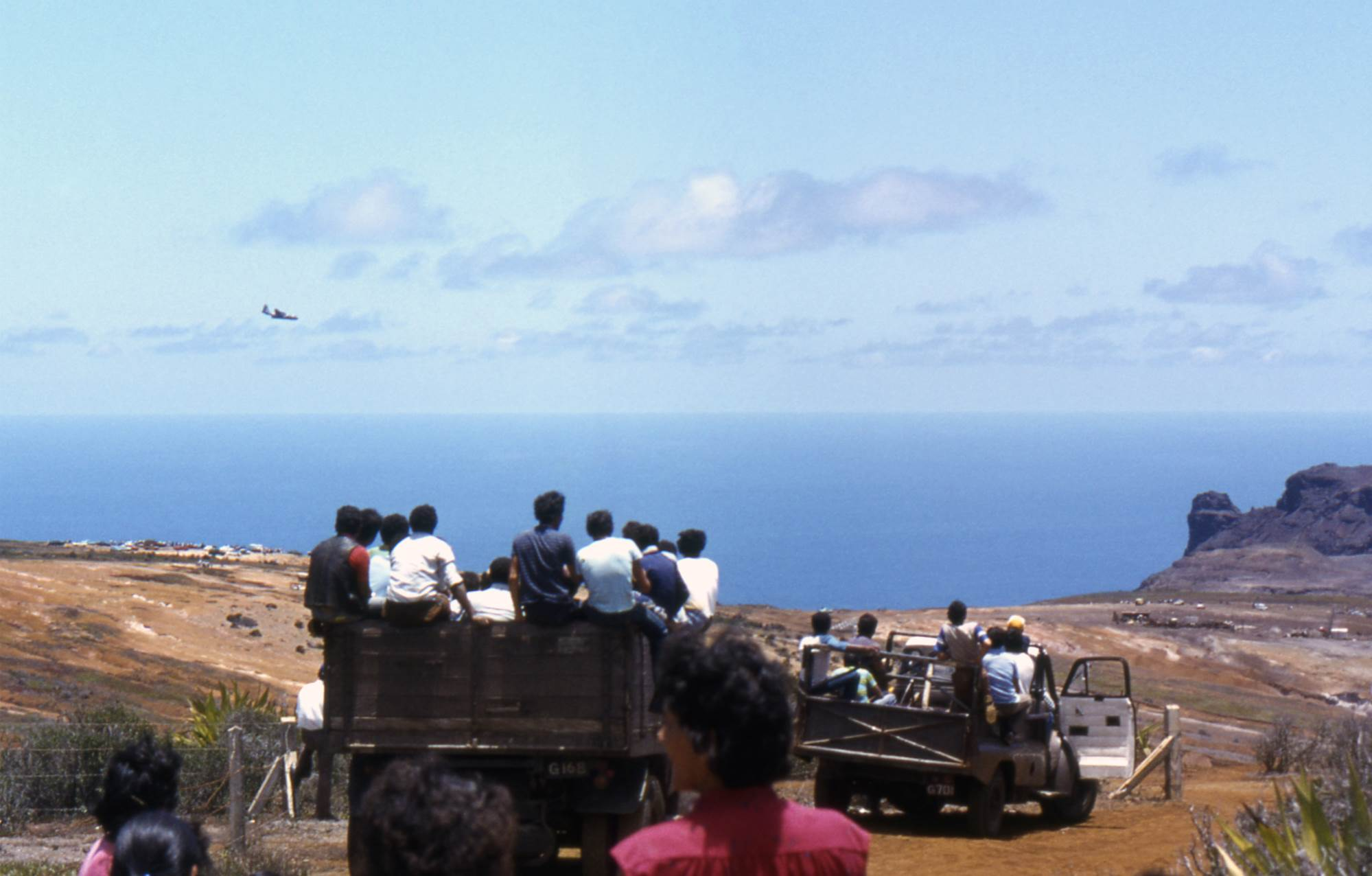 View out over Prosperous Bay Plain, St Helena Island, c1985. Peter Neaum.